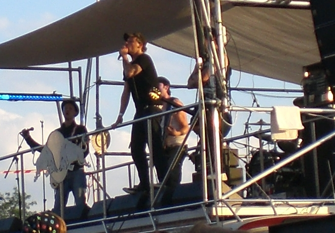 German Pop-Punk-band Donots performing at a Umsonst und draußen-Festival sponsored by Red Bull (redbulltourbus)